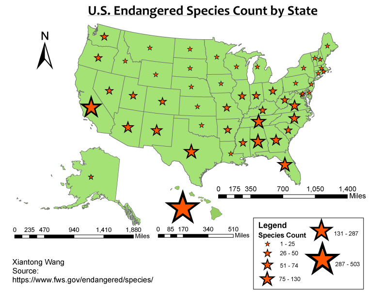 A proportional symbol map of each state's endangered species count, Alaska and Hawaii included.